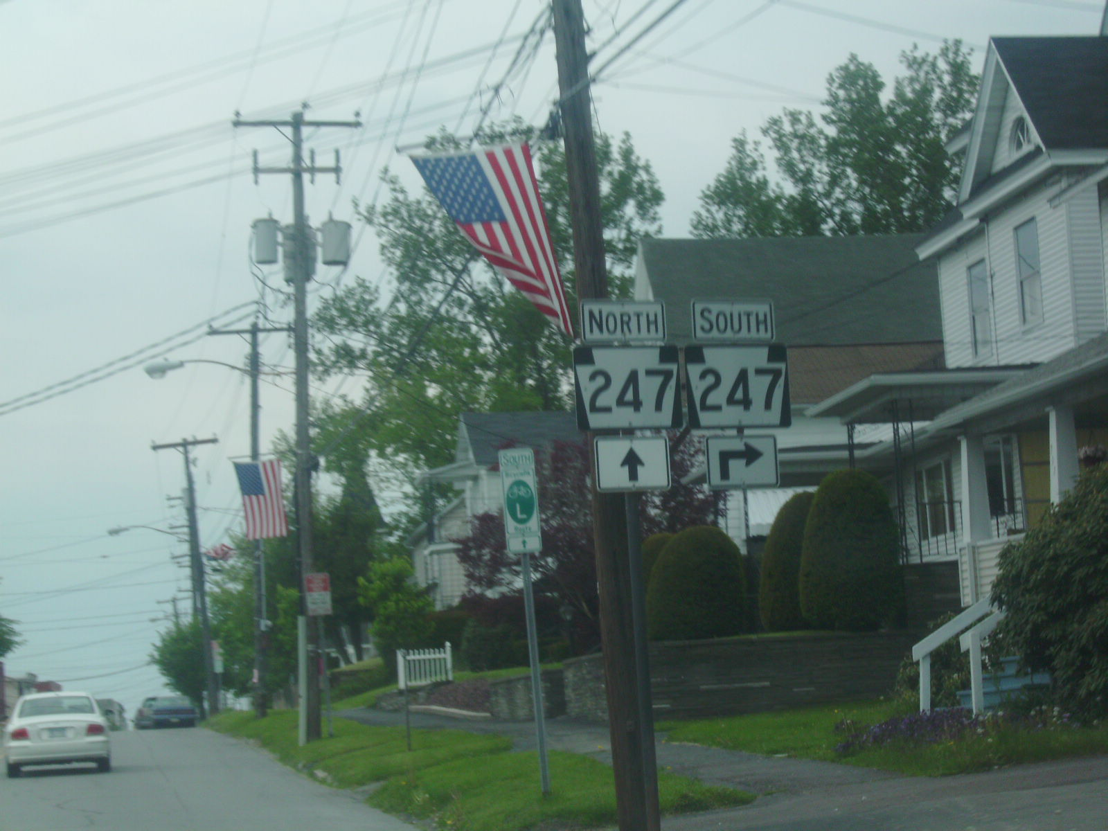 Sign assembly on Pennsylvania Route 171 southbound in Forest City, Pennsylvania, indicating the northern terminus of its overlap with Pennsylvania Route 247. PA 171 and PA 247 run in opposite directions through Forest City; that is, PA 171 south overlaps PA 247 north.